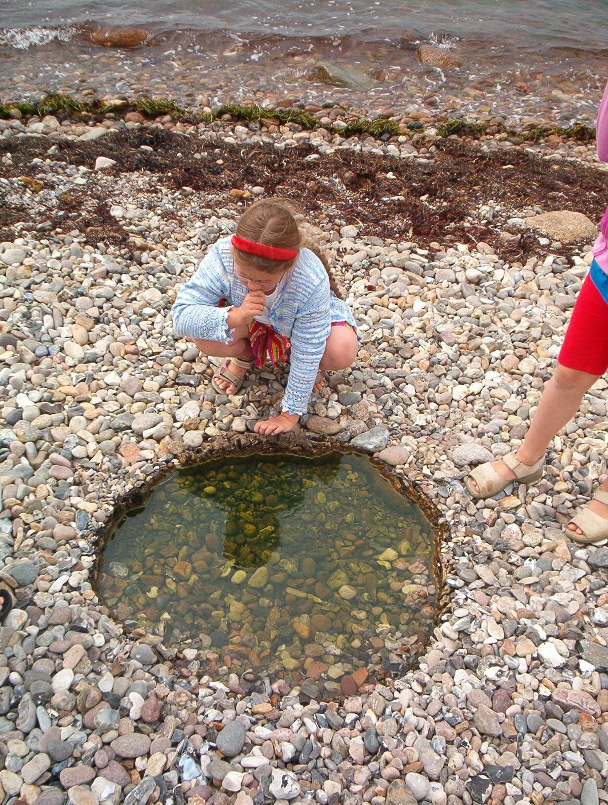 Ilse Made kilde, a "holy well" on Samsø Source: Photo taken by Bruger:Palnatoke